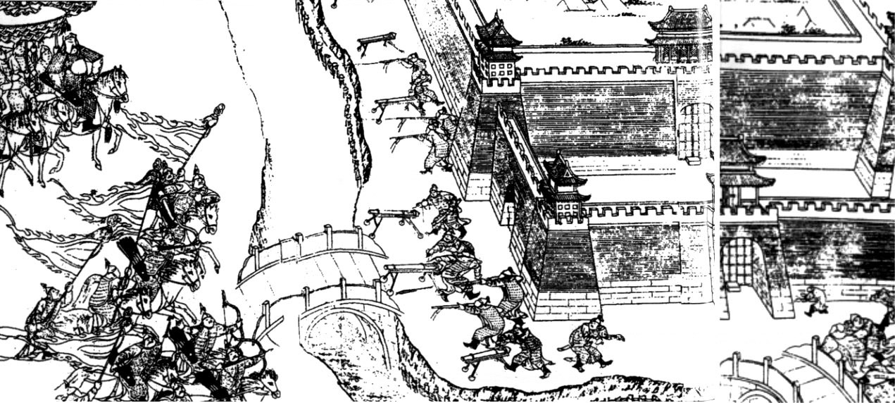 An ilustration of Nurhaci's biography depicting the battle of Liaoyang (1621)